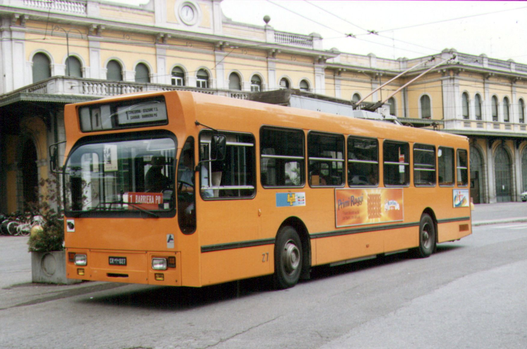 Cremona trolleybus 27, a Mauri-bodied Volvo B59 built in 1981, at Stazione FS (the railway station) in the late 1990s, on route 1.